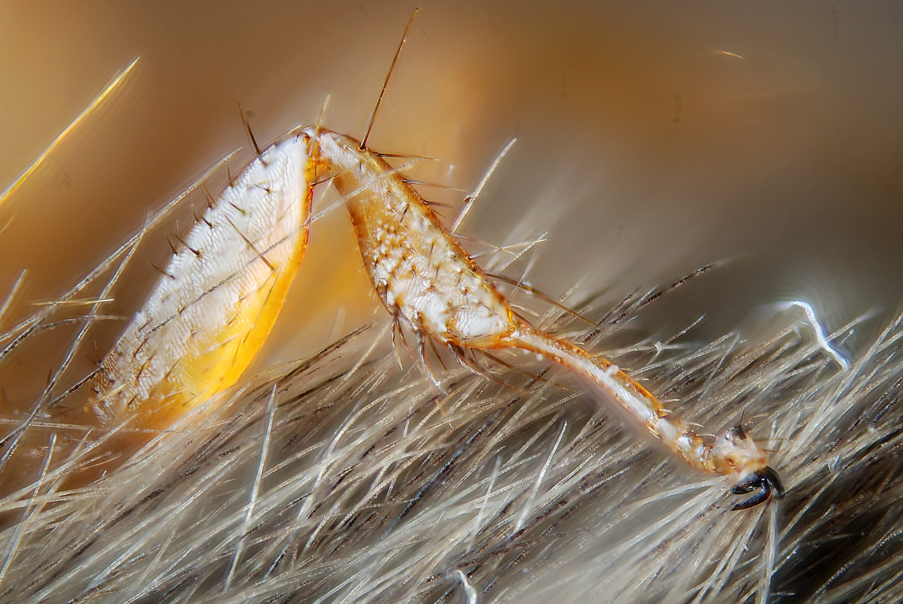 The anterior leg of a parasitic fly of the familly Nycteribiidae collected on a Plecotus auritus bat in Switzerland (Le chenit, Baume de la petite Chaux, Coll. P. Nyssen). The claws are particularly well adapted to grab the fur. Technical settings : - focus stack of 20 images - microscope objective (Nikon achromatic 10x 160/0.25) on 100 mm extension tubes/adapter